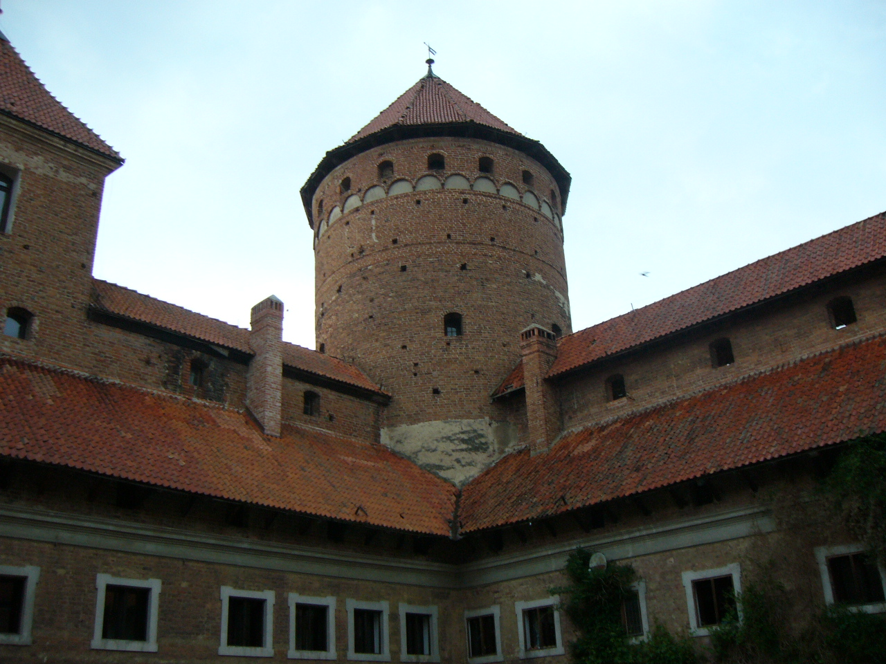 Teutonic castle in Reszel, Poland